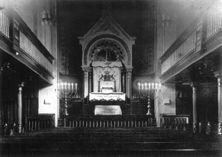 Synagogue of Wuppertal-Elberfeld, Interior bteween 1865 and 1875